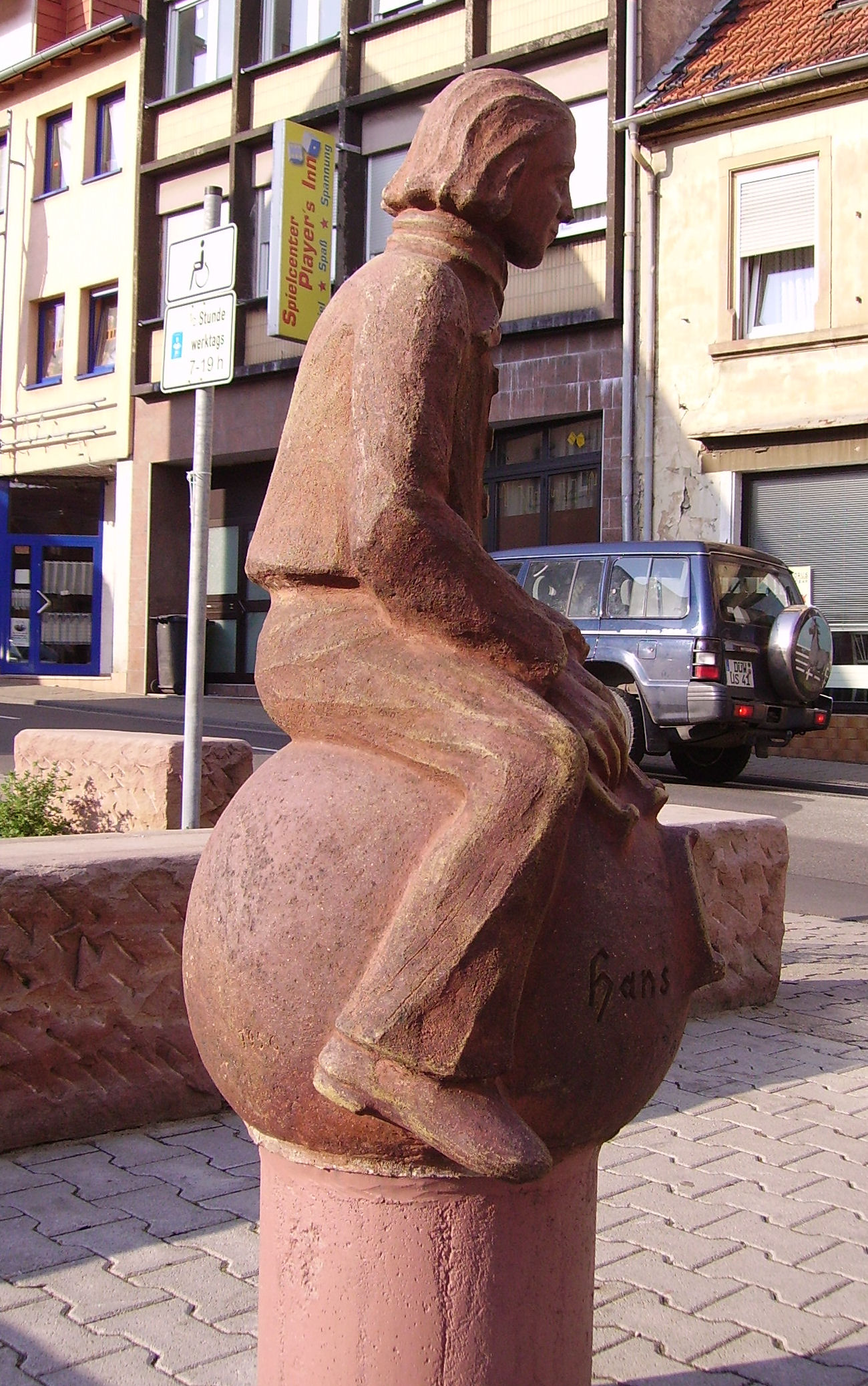 statue in Eisenberg (Pfalz), Germany